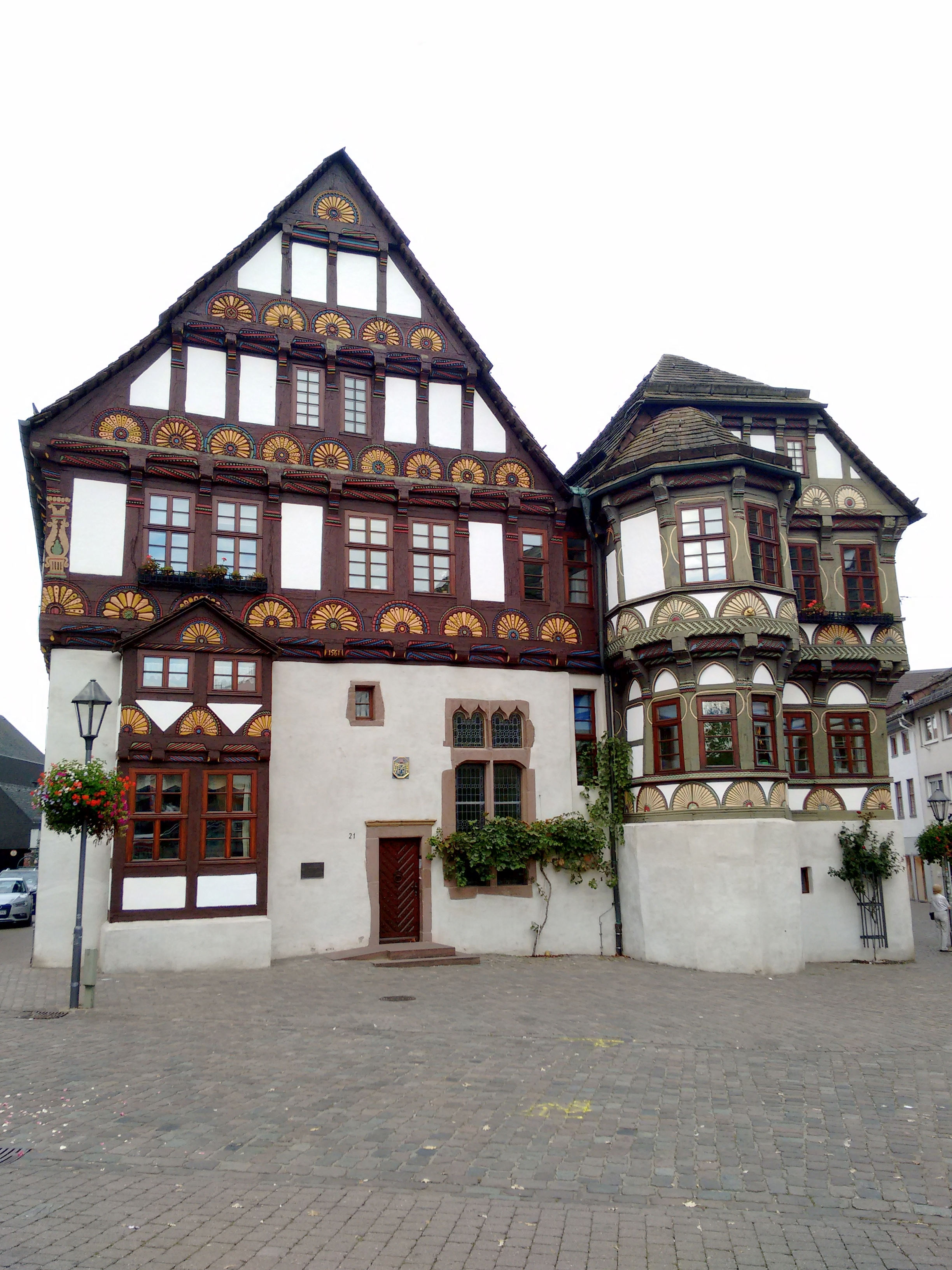 Deanery in the market street 21 in Hoexter and former residence of the family von Amelunxen. Listed Monument Nr. 15 in Höxter, Germany